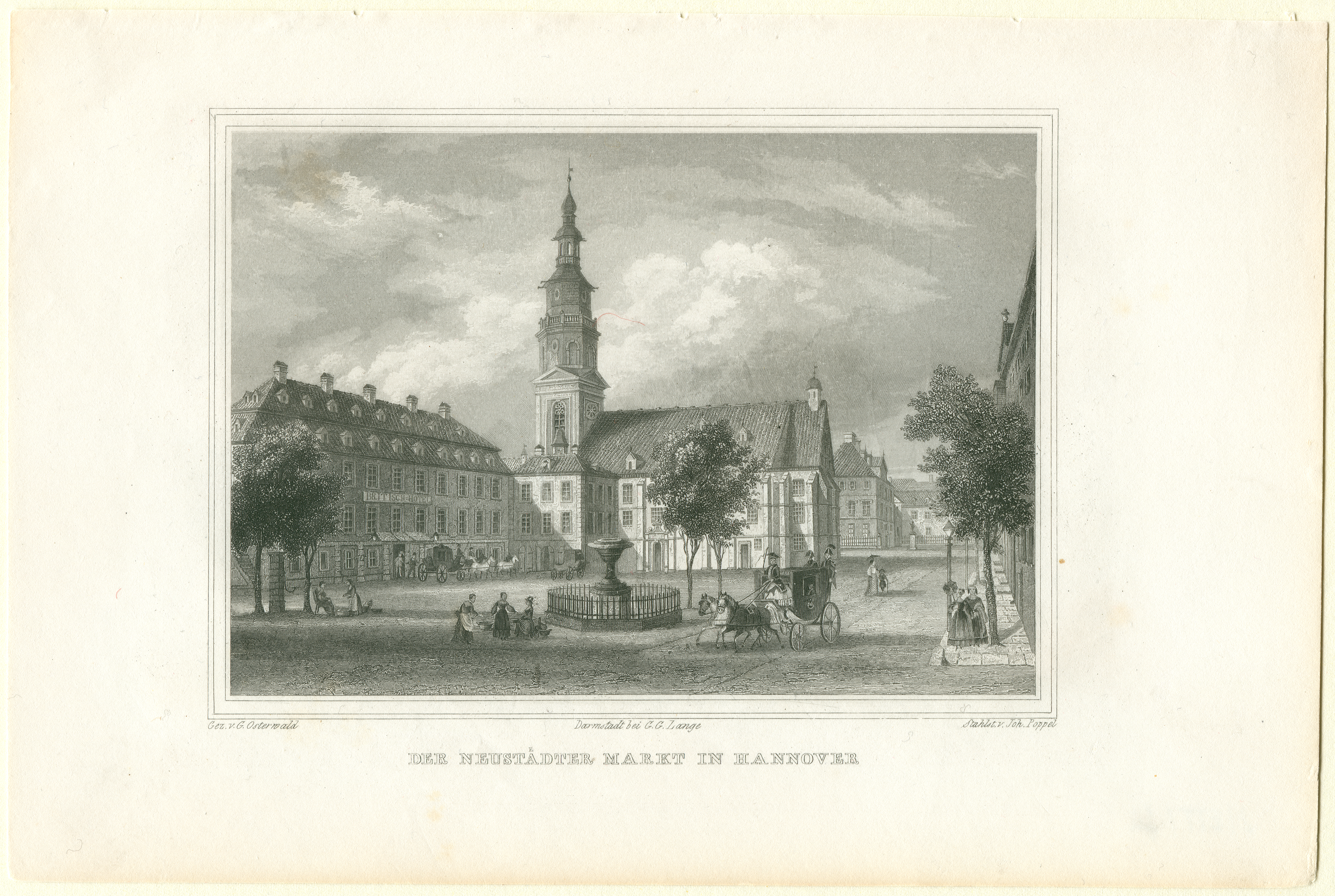 "The Neustaedter market in Hanover"; steel engraving by Johann Poppel after a drawing of Georg Osterwald; printing and publishing by Gustav Georg Lange, Darmstadt 1858. Sheet and plate are out of square.